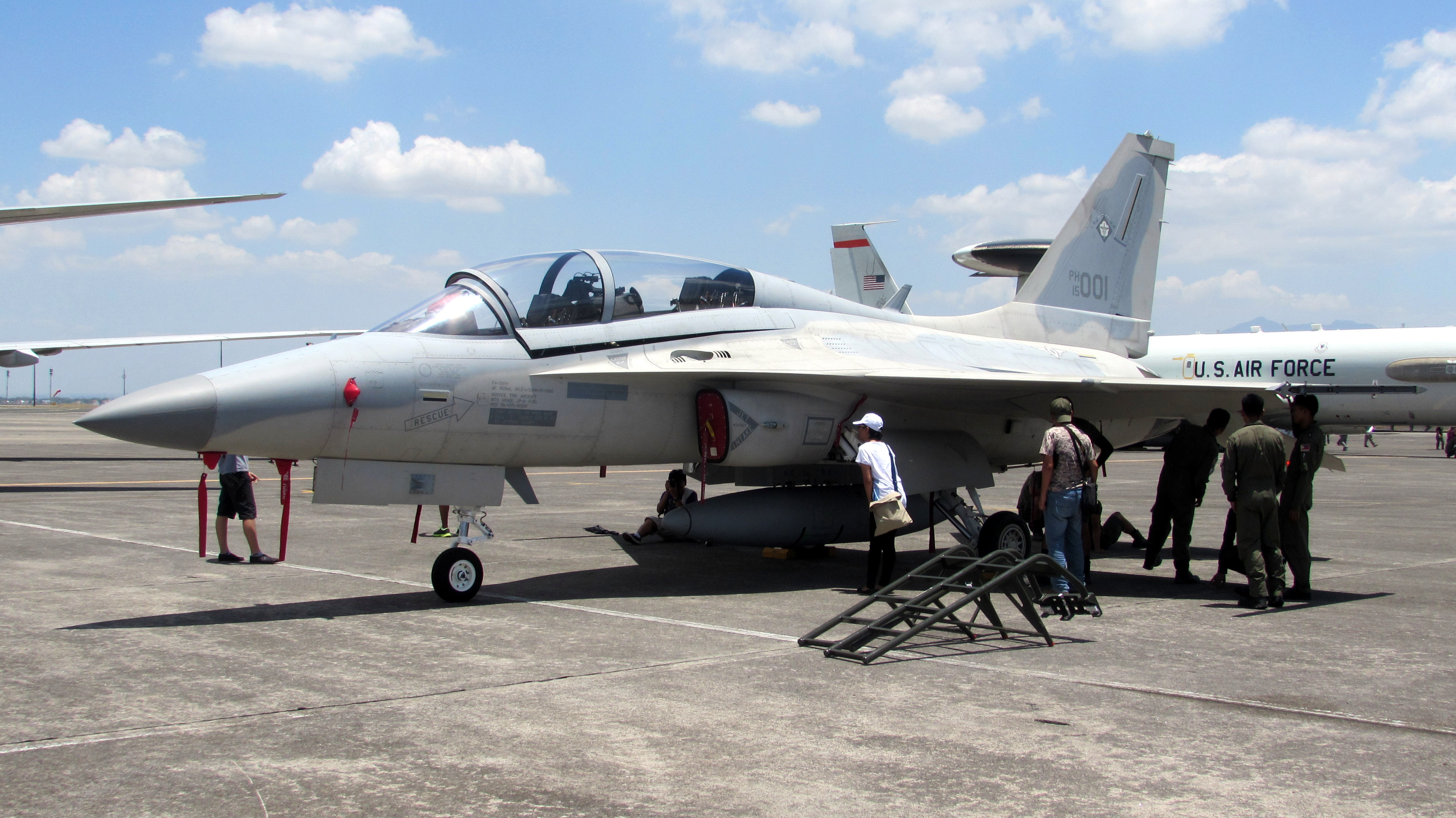 Side view of an FA-50PH aircraft of the Philippine Air Force. Photo taken during the Static Aircraft Display Day of the Balikatan 2016 Exercise.